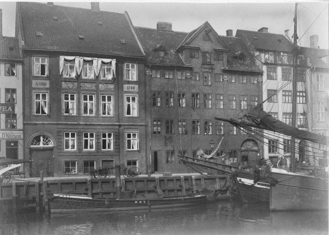 Nyhavn 63-65 in Copenhagen, Denmark